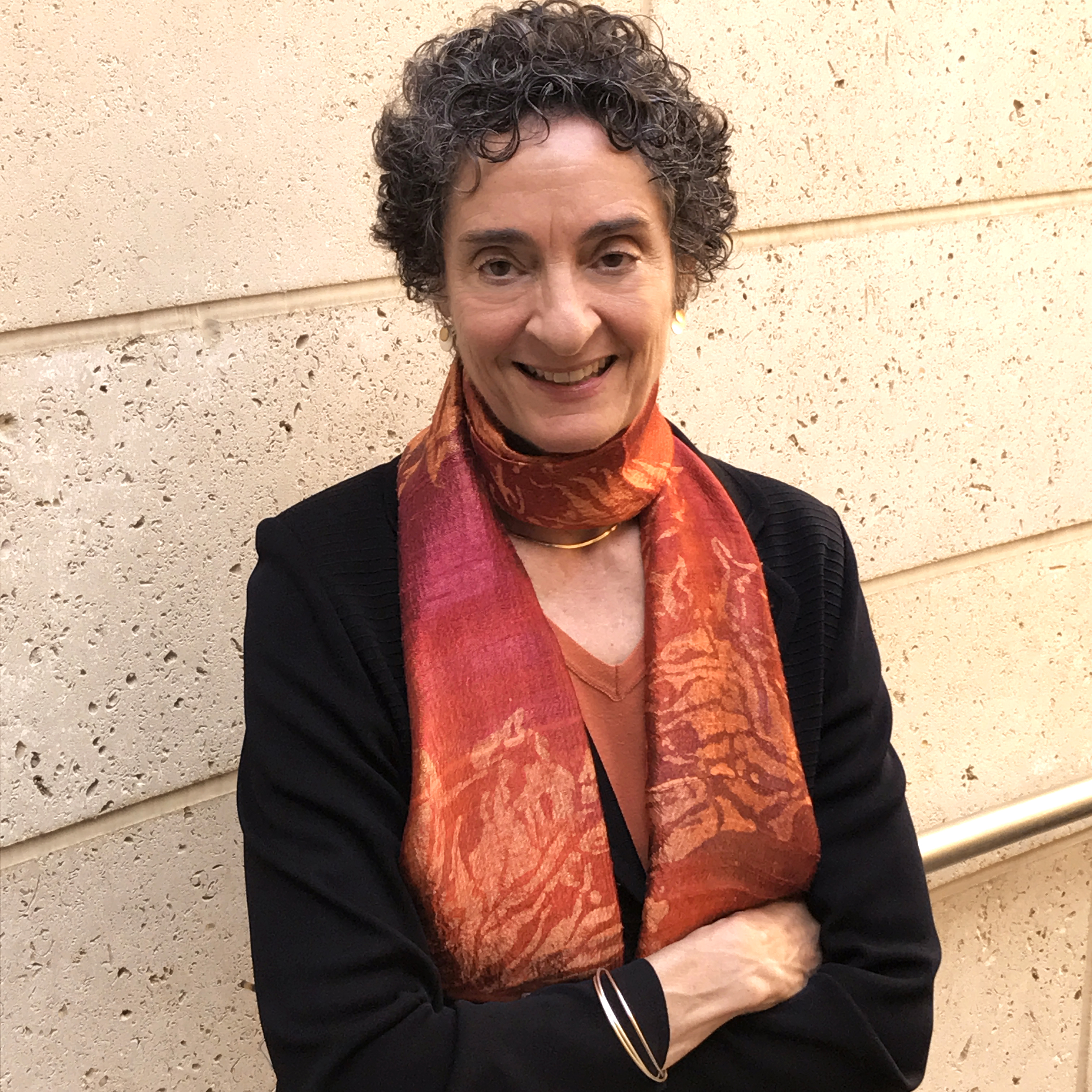 photograph of Carla Shatz